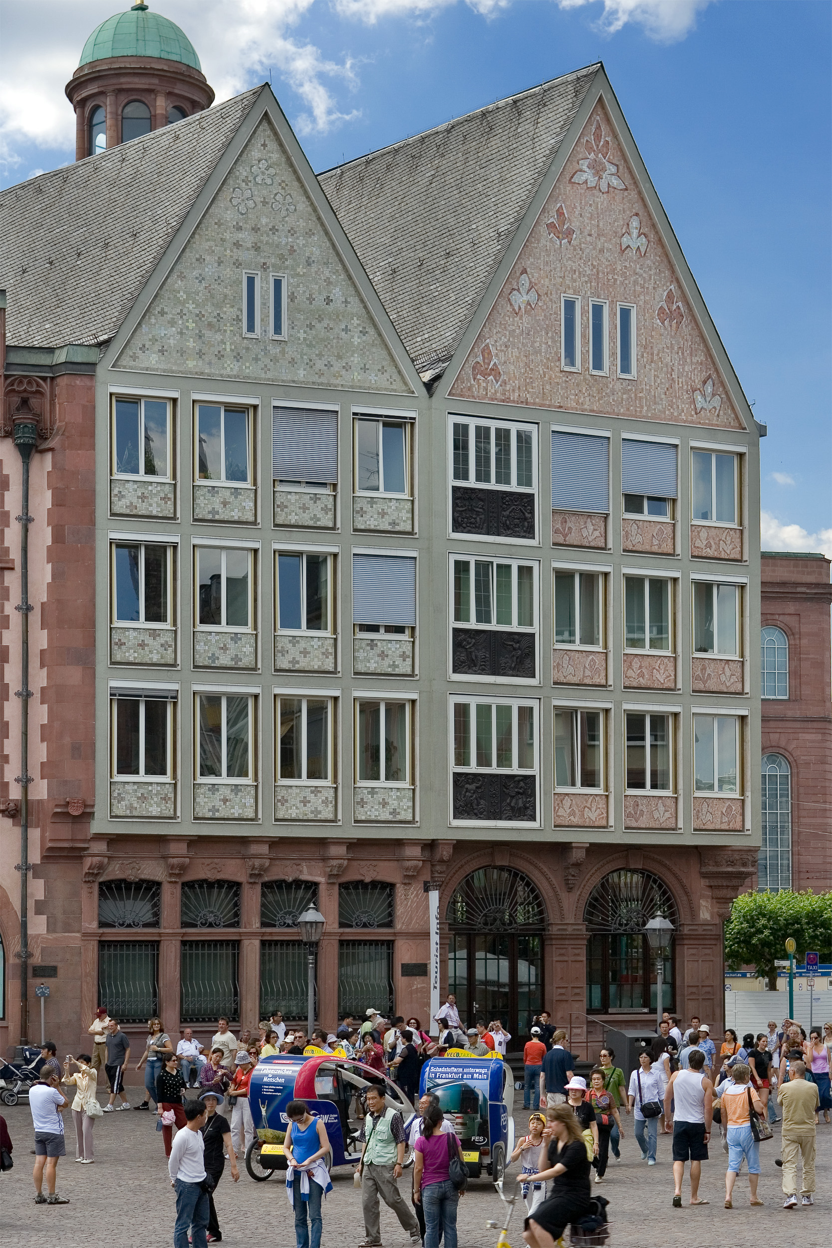 Roemerberg in Frankfurt on the Main: House Frauenstein (to the left) and Salt House (to the right)